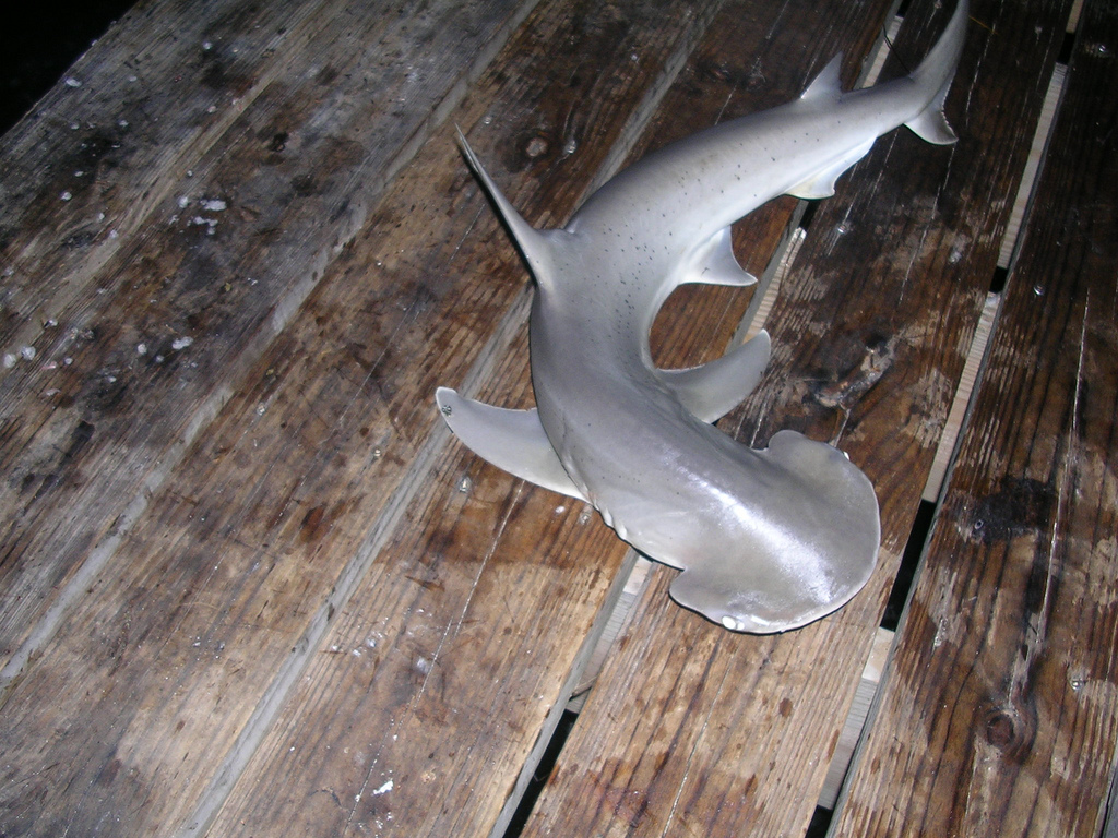 Bonnethead shark (Sphyrna tiburo) at Islamorada, Florida Keys